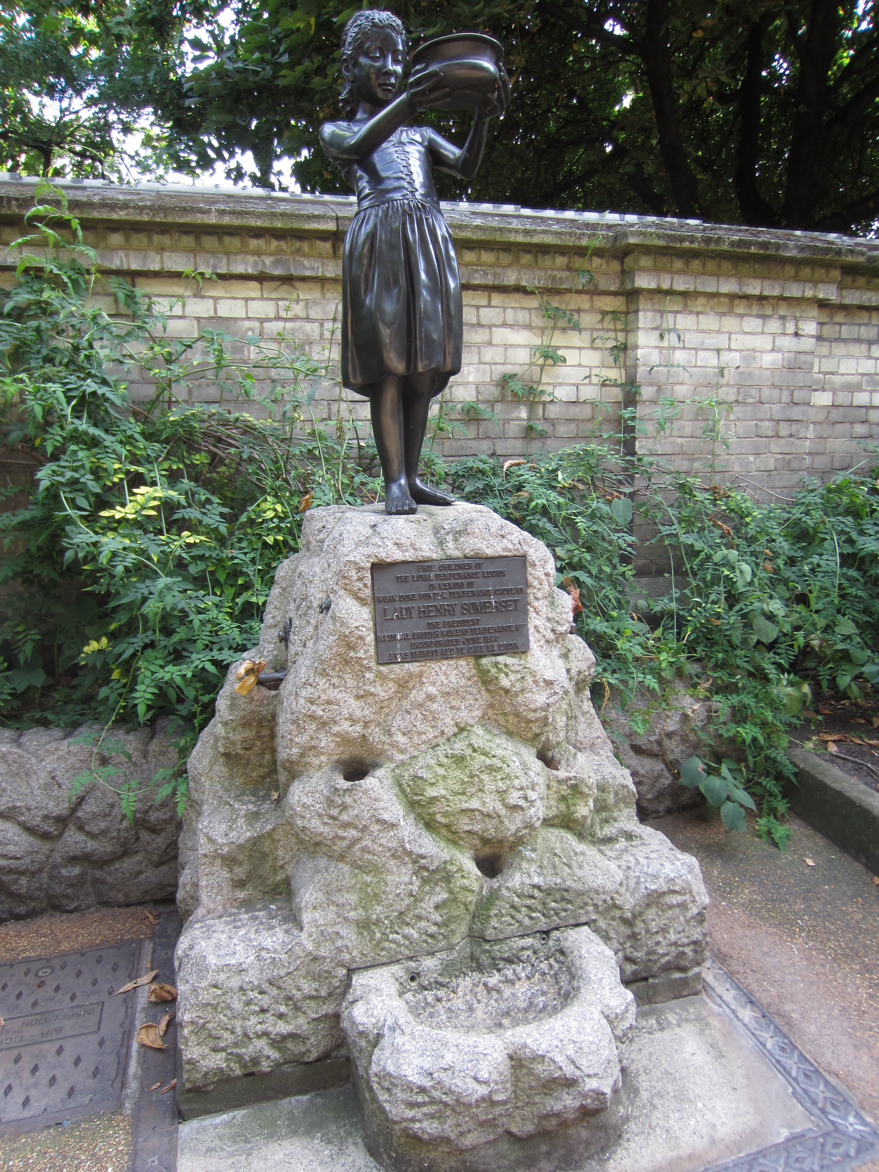 London, United Kingdom (August 2014)